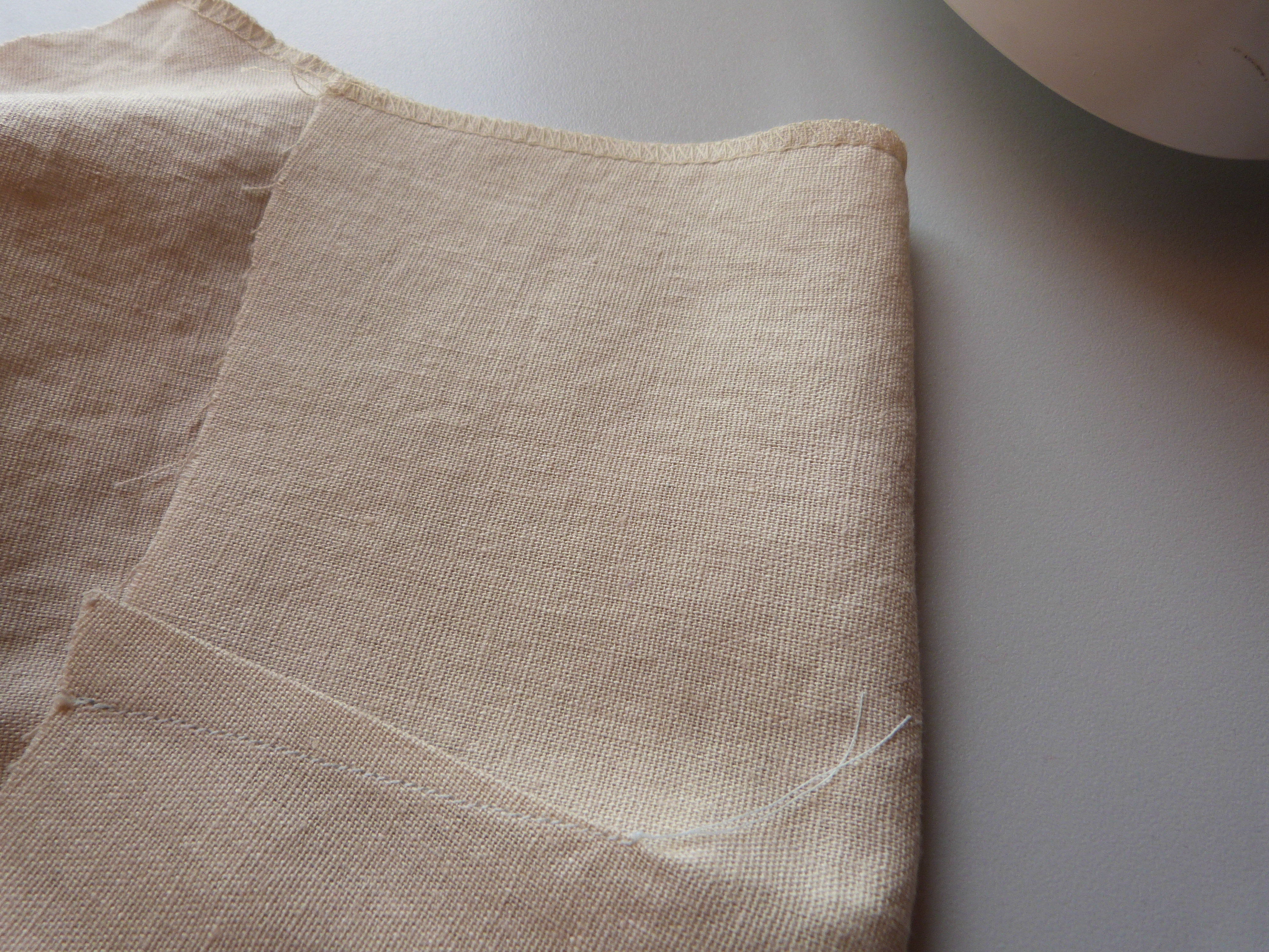 A dart stitched into a sewing piece to be added to a garment being made.